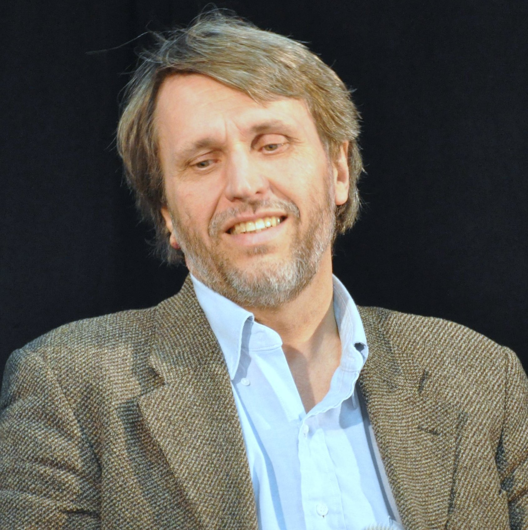 Finnish professor of pedagogics and non-fiction writer Tapio Puolimatka at the Jyväskylä Book Fair 2009.